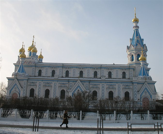 (Eastern) Orthodox church in Daugavpils (Jaunbūve district), in southwestern Latvia.